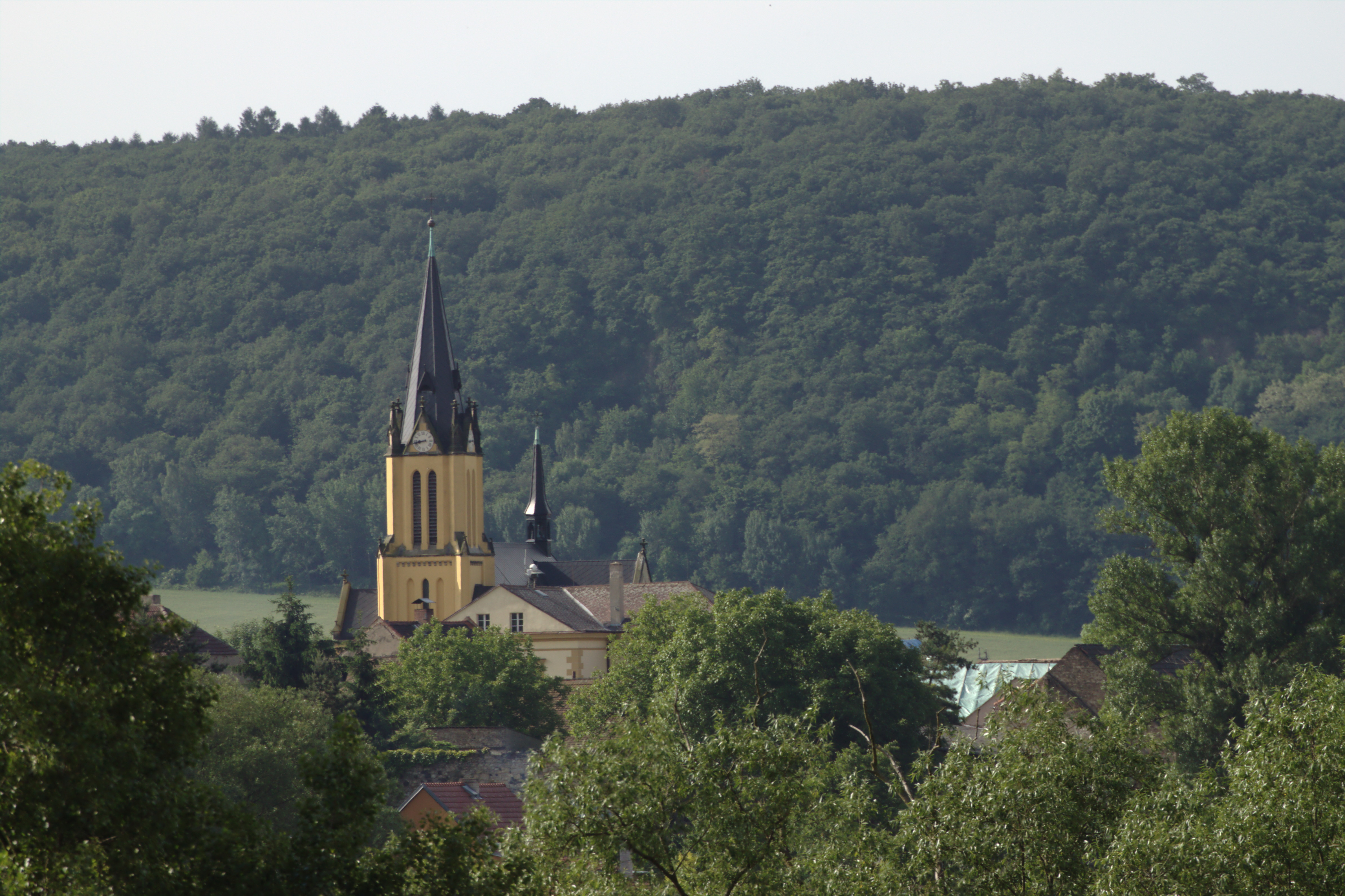 A church in Libochovany seen from Prackovice nad Labem, Ústí Region, CZ